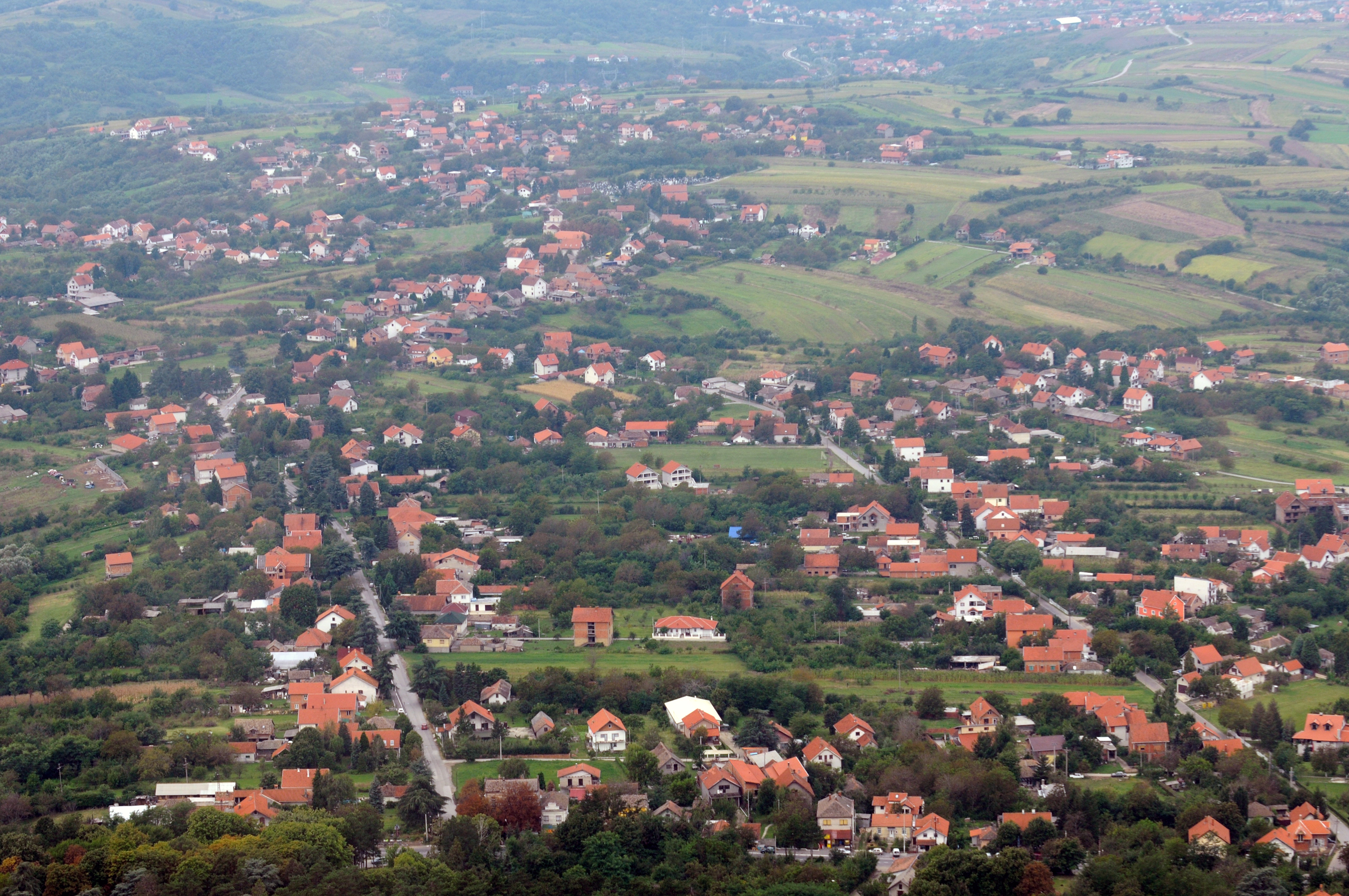 Serbian countryside seen Sept. 11, 2010, during a visit by more than two dozen members of the Ohio National Guard participating in the State Partnership Program. Ohio is paired with Serbia in the National Guard's 62-nation SPP. (U.S. Army photo by Staff Sgt. Jim Greenhill) (Released)